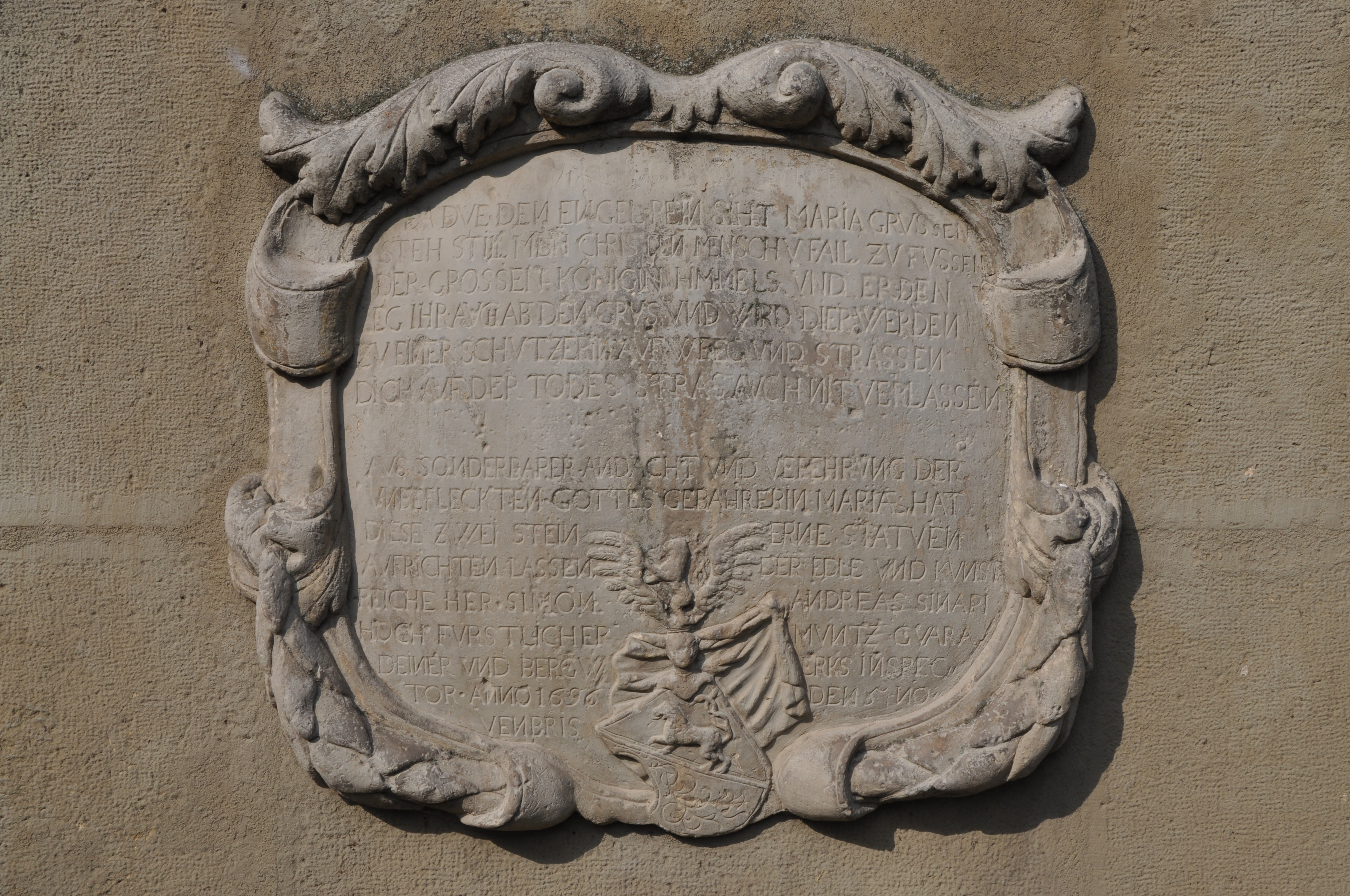 Kroměříž, Czech Republic. Malý val Street, the sculpture of the Annunciation of the Virgin Mary by Jean Baptiste Dieussard from 1696.